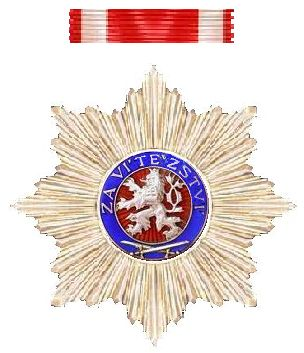 Ster